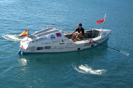 Pacific Pete, rowed by Chris Martin, leaves La Gomera in the 2005 Atlantic Rowing Race